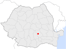 Location of Câmpina in Romania.